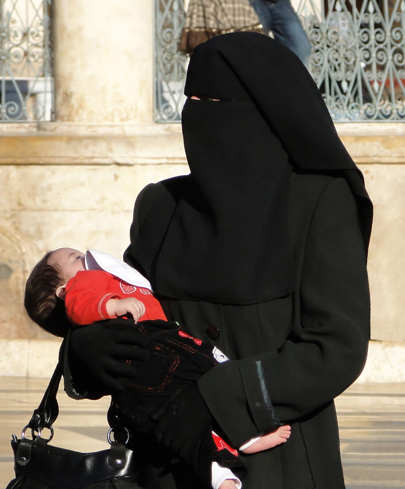 Woman in the niqab (face veil) and abaya (long outer-garment) in Aleppo, Syria